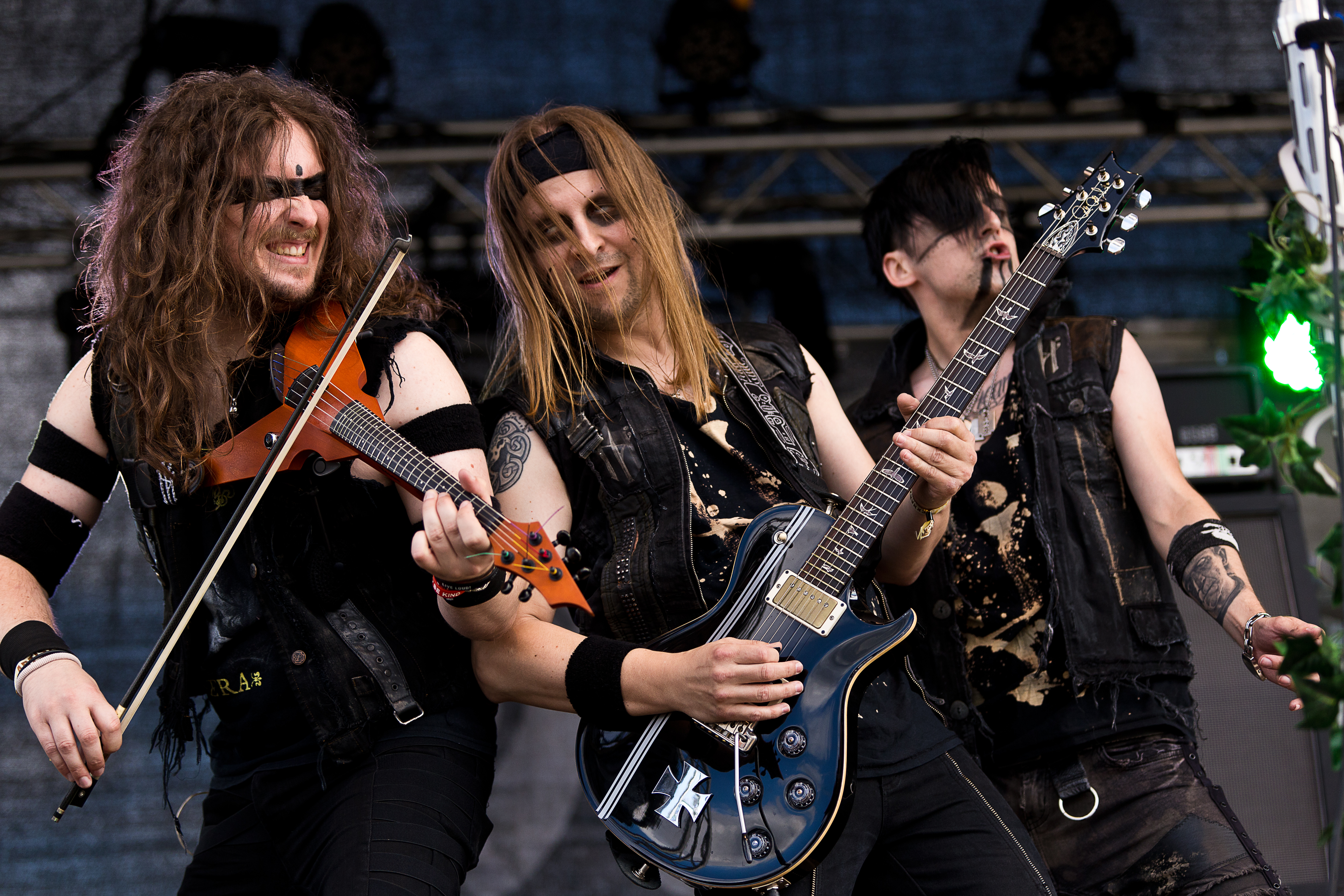 The Italian power metal band Elvenking at the Rockharz Open Air 2015 in Ballenstedt/Germany.